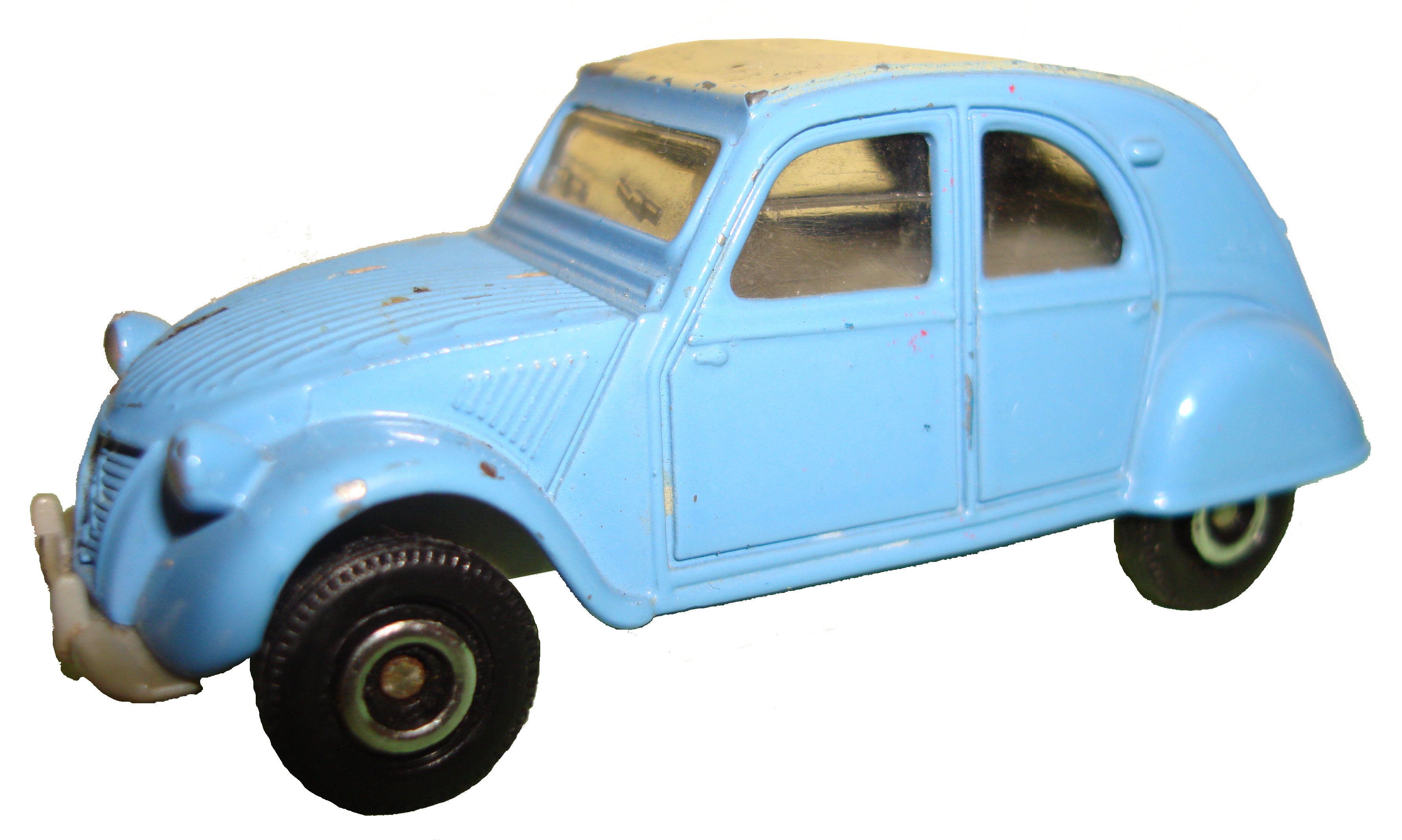 A Model 2cv made by Corgi